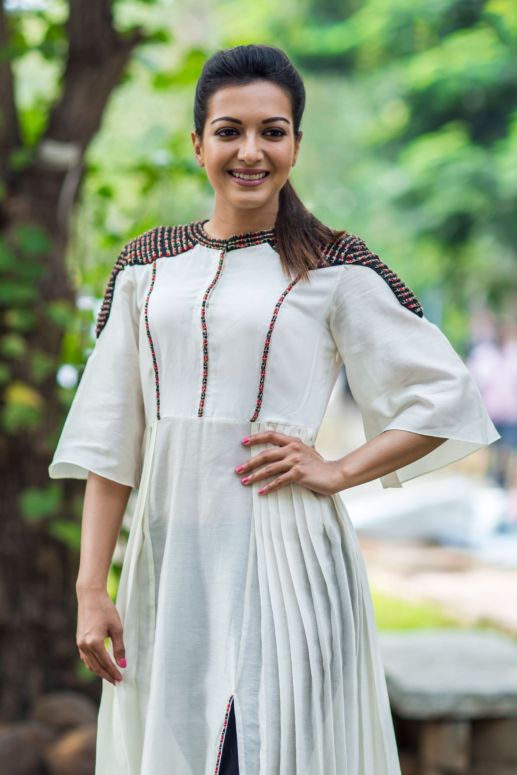 Catherine Tresa at the Kalakalappu 2 Press Meet